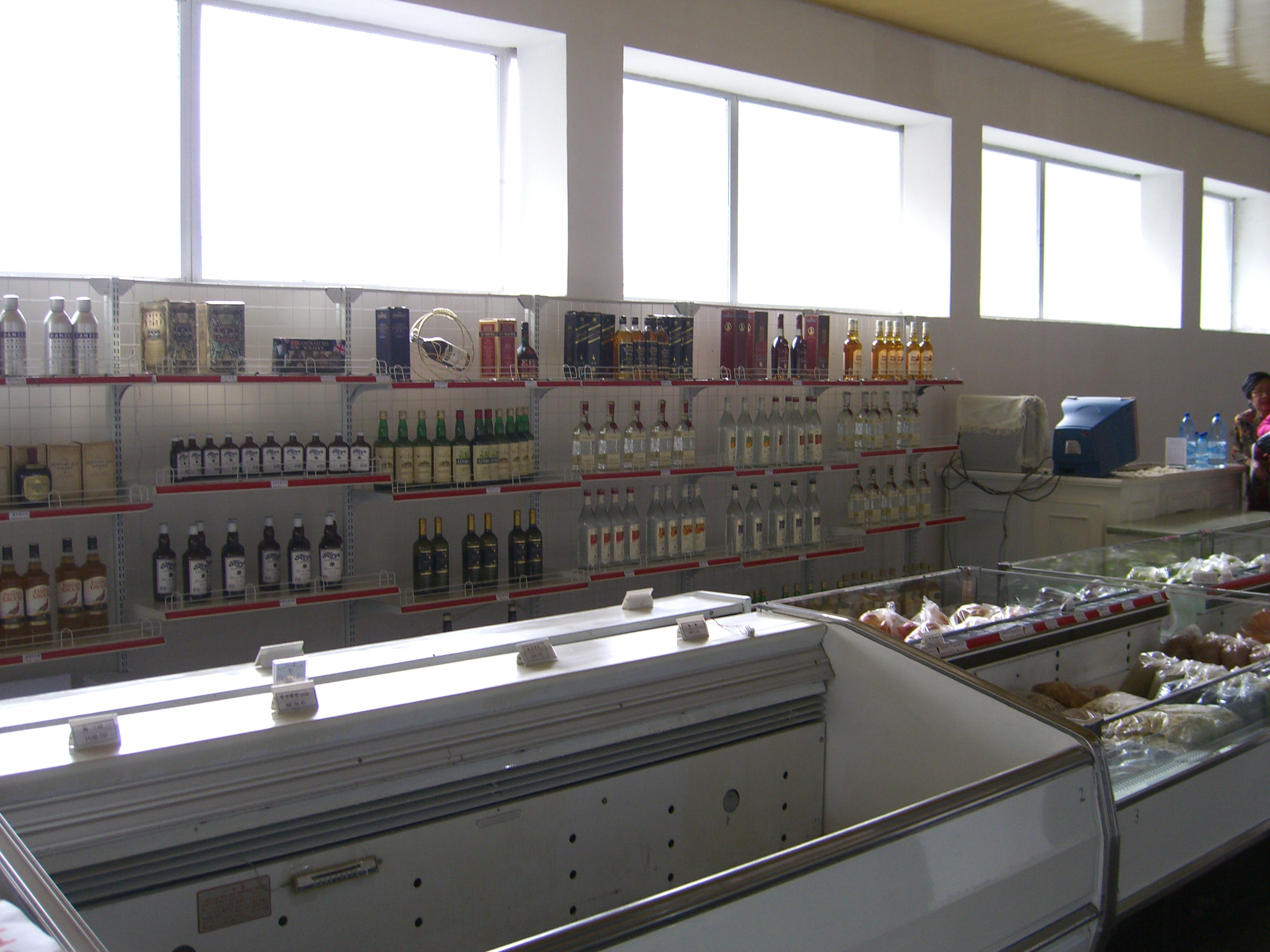 Tourist "department store" in Pyongyang.